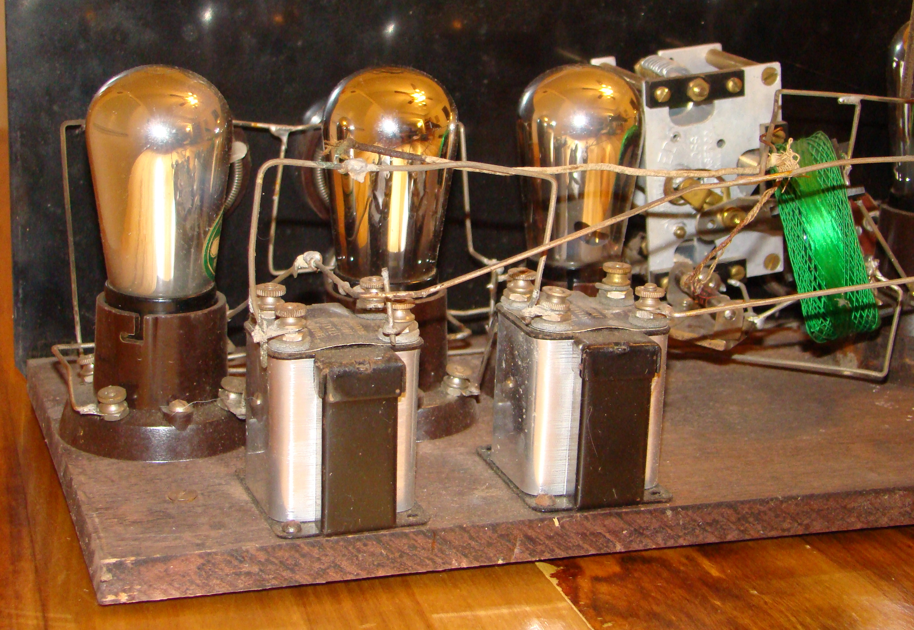 1920s TRF radio manufactured by Signal Electric MFG. CO. located in Menominee Mich. Demonstrates early radio construction methods using "breadboard"